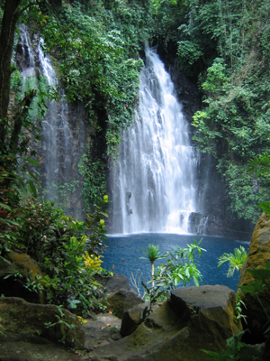 Taken by Andrei Martin Diamante, December 2006